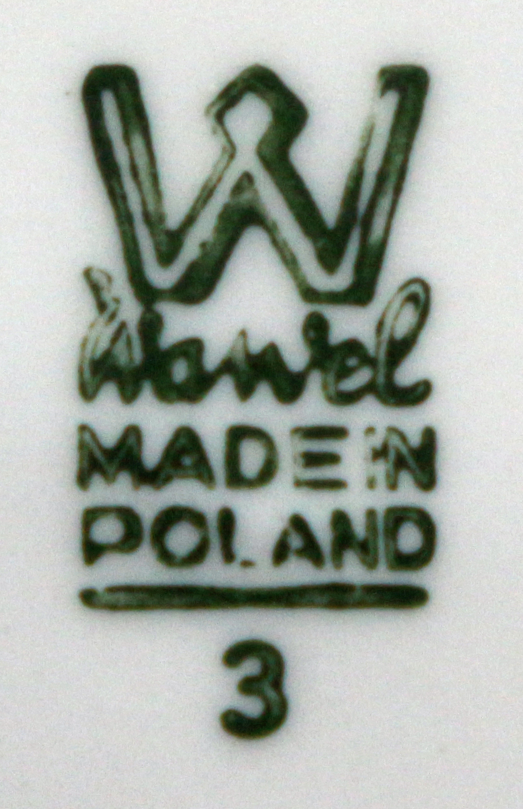 Porcelain mark W Wawel (Wałbrzych) Made in Poland. Mark of porcelain factory ZPS Krzysztof/ZPS Wawel in Wałbrzych used between 1954 and 1999.